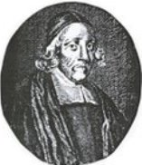 Thomas Adams (c1633-1670)